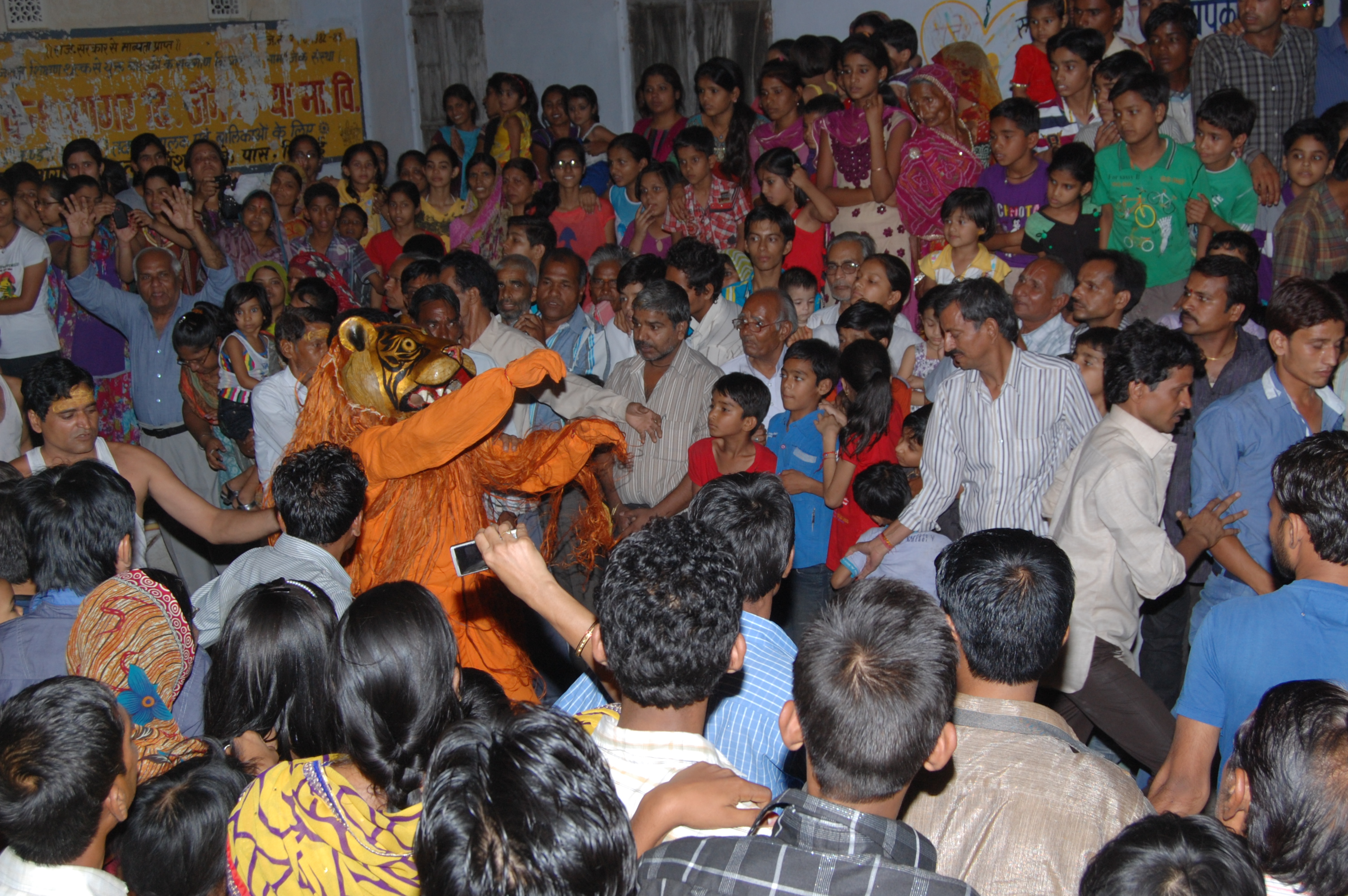 Shree Nrisingh Janmotsav at Nayamandir in Newai in 2014